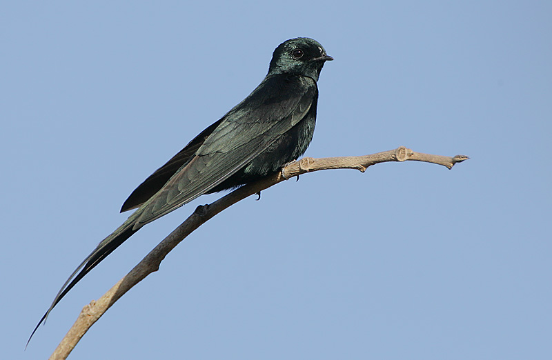 An adult male. Image taken at Brufut in The Gambia